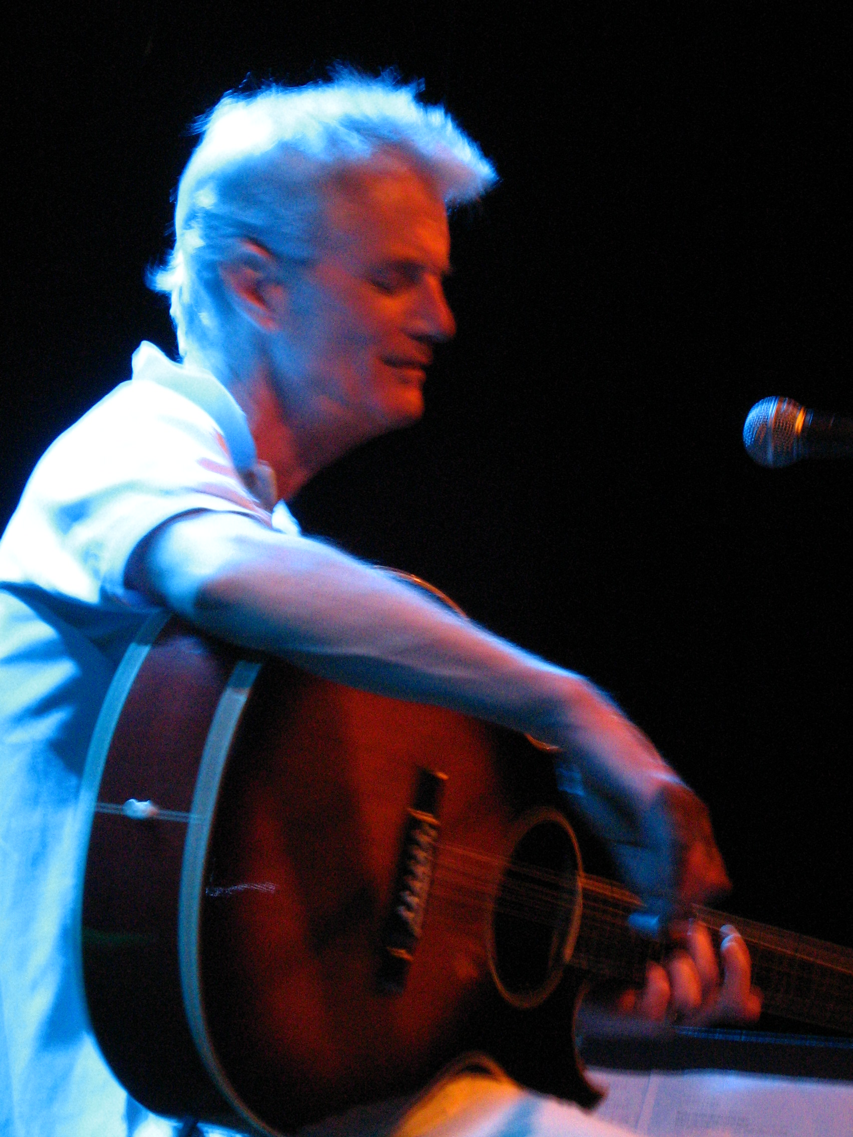 Peter Hammill performs in Tel Aviv